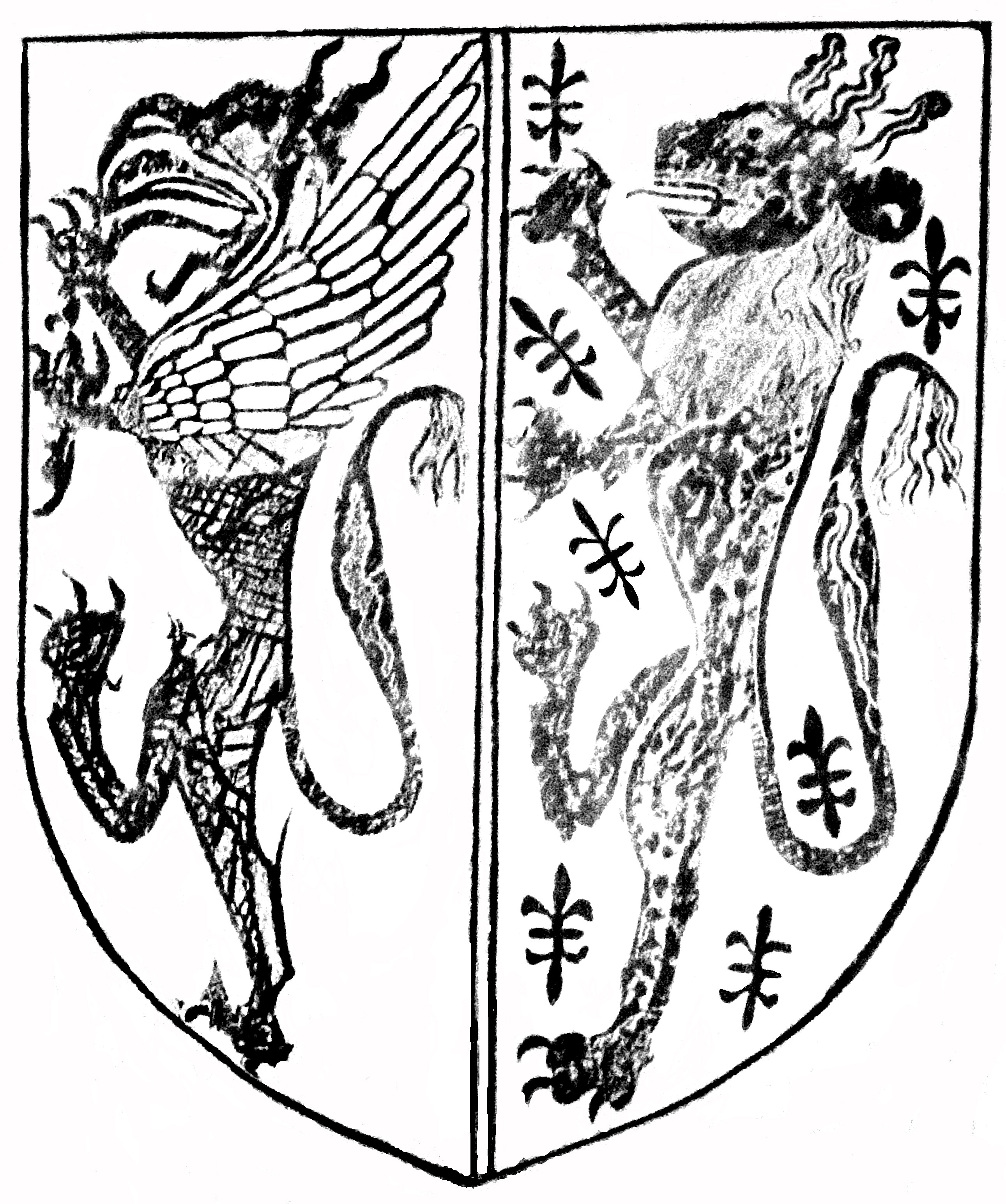 Heraldic escutcheon showing arms of William de Botreaux, 3rd Baron Botreaux(d.1462) impaling those of his wife Elizabeth Beaumont: Argent, a griffin segreant gules armed azure (Botreaux) impaling Azure seme of fleurs-de-lis a lion rampant or (Beaumont). Incised on the tombstone of their deceased young son Reginald de Botreaux, died 1420, Aller Church, Somerset. Image of rubbing taken from tomb-stone by Lobsterthermidor. Actual size: 35 * 29 cms.